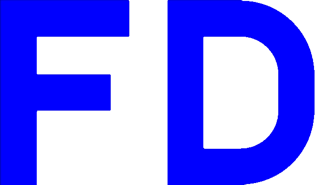 Logo of the International Flying Dutchman Class